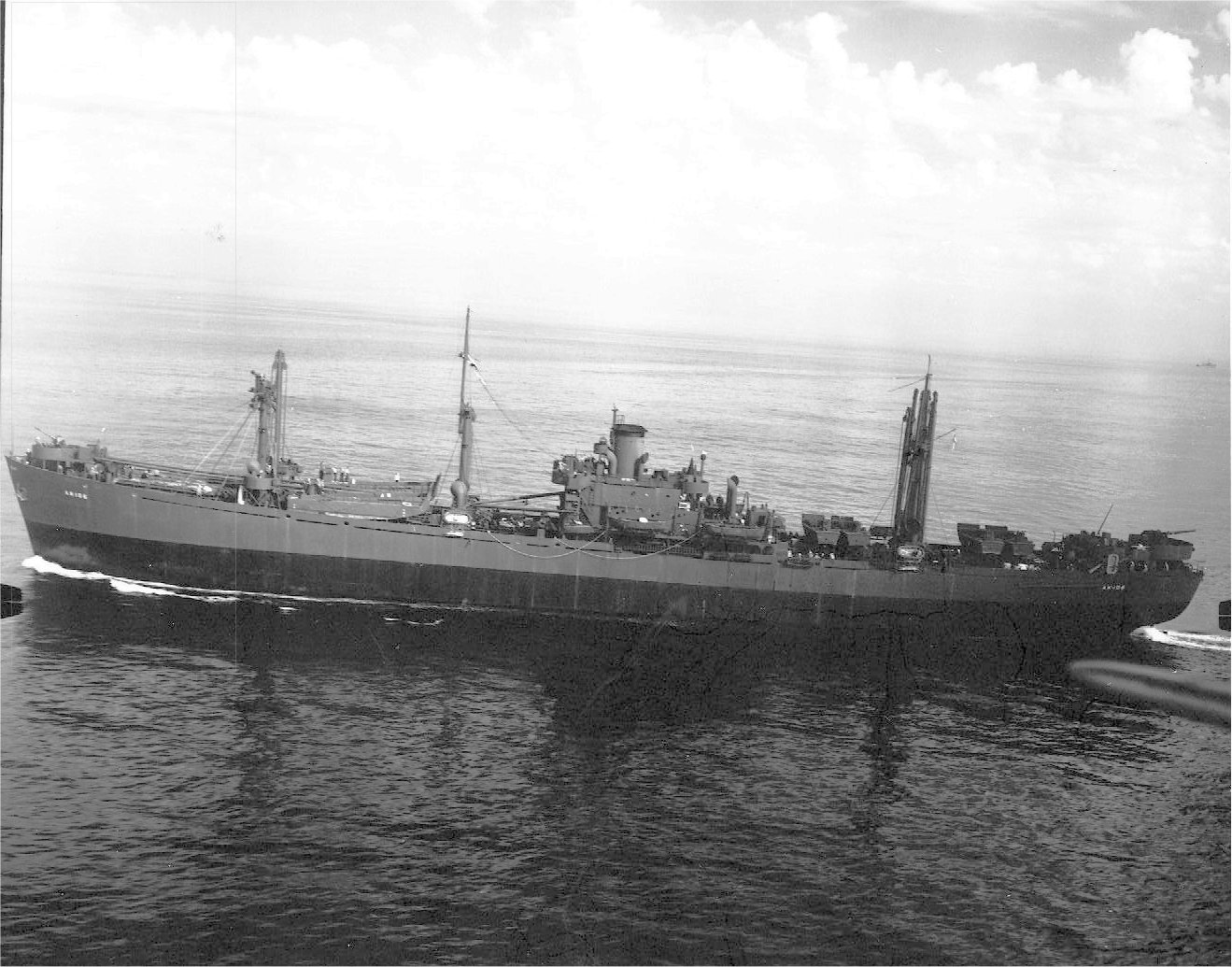 USS Caelum (AK-106) underway probably in San Francisco Bay, date unknown.